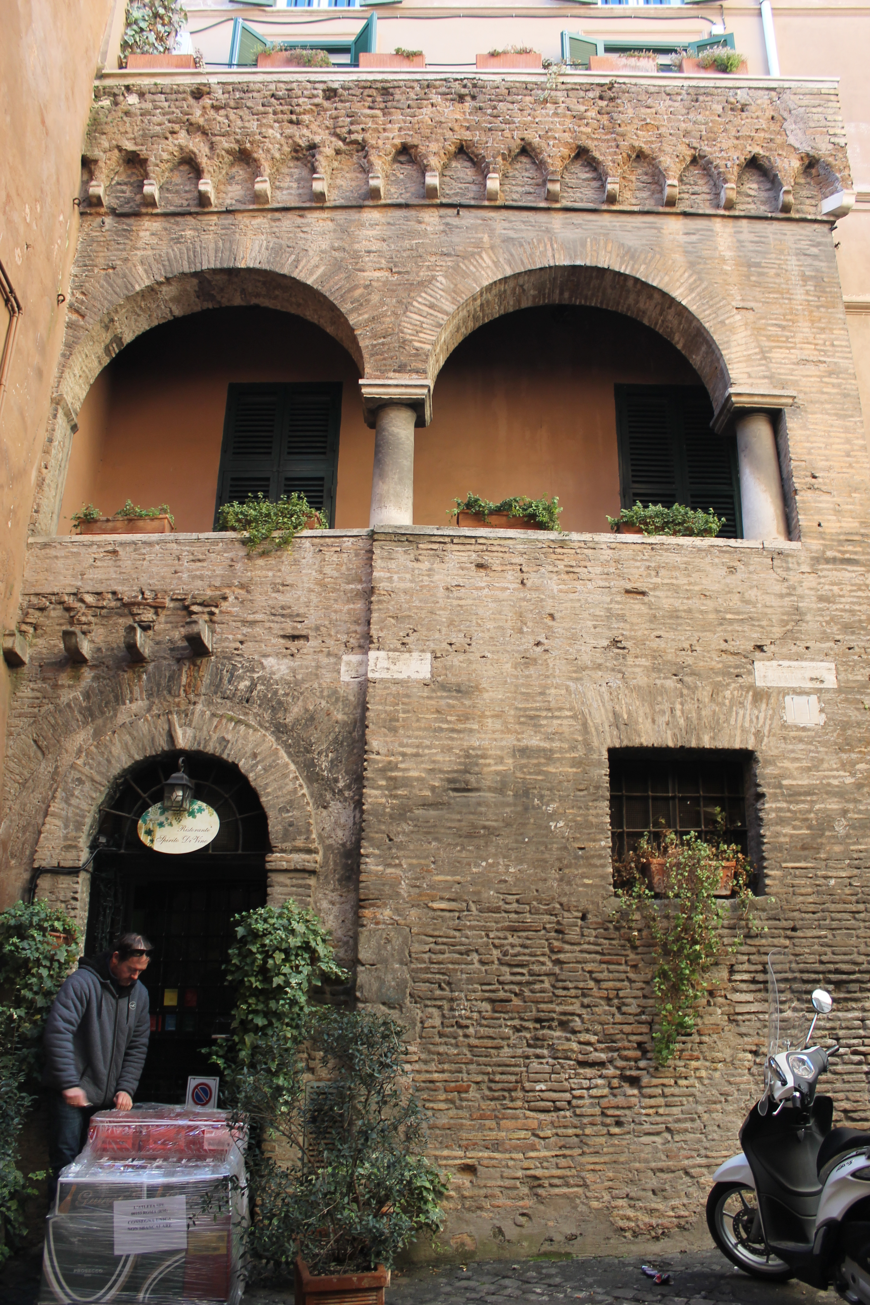 This is a photo of the building at 14, Vicolo dell’Atleta in the Trastevere section of Rome which housed the first synagogue of Rome from the 12th to the 16th century.